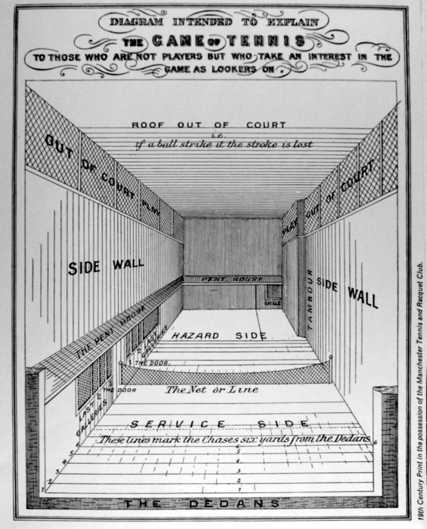 Depiction of a Real Tennis / Jeu de Paume court